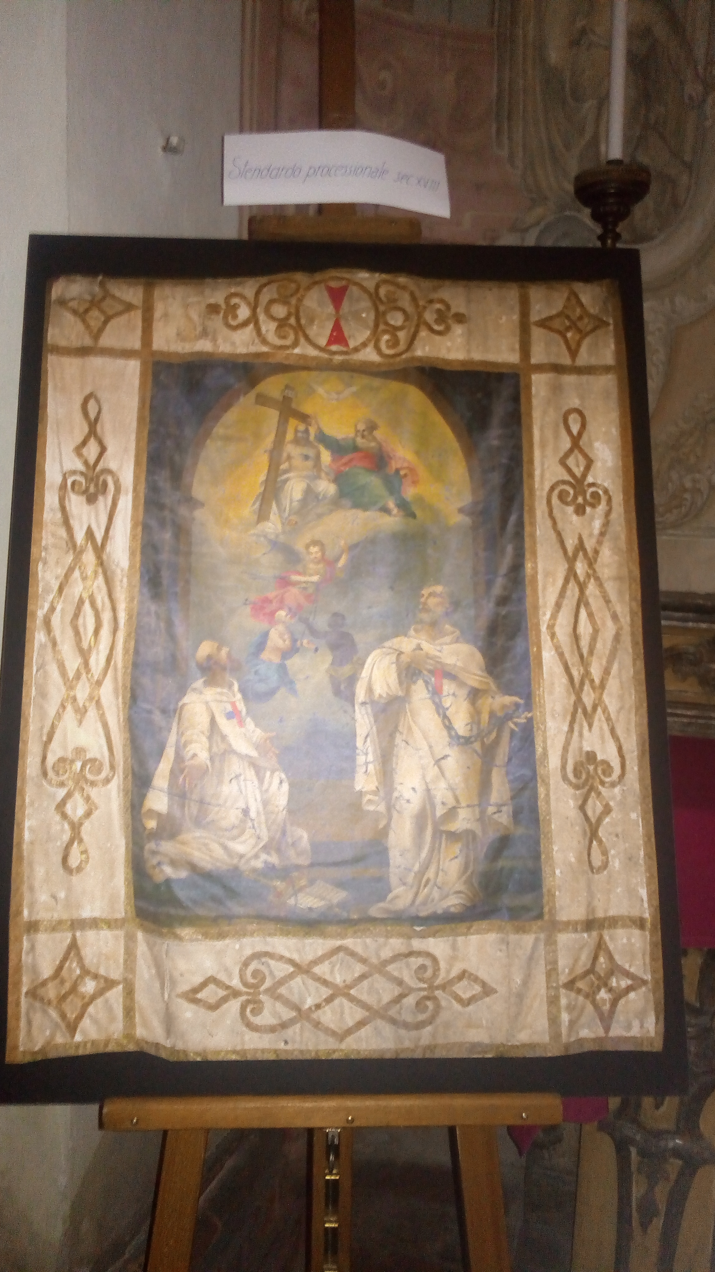 Oratorio del riscatto curch